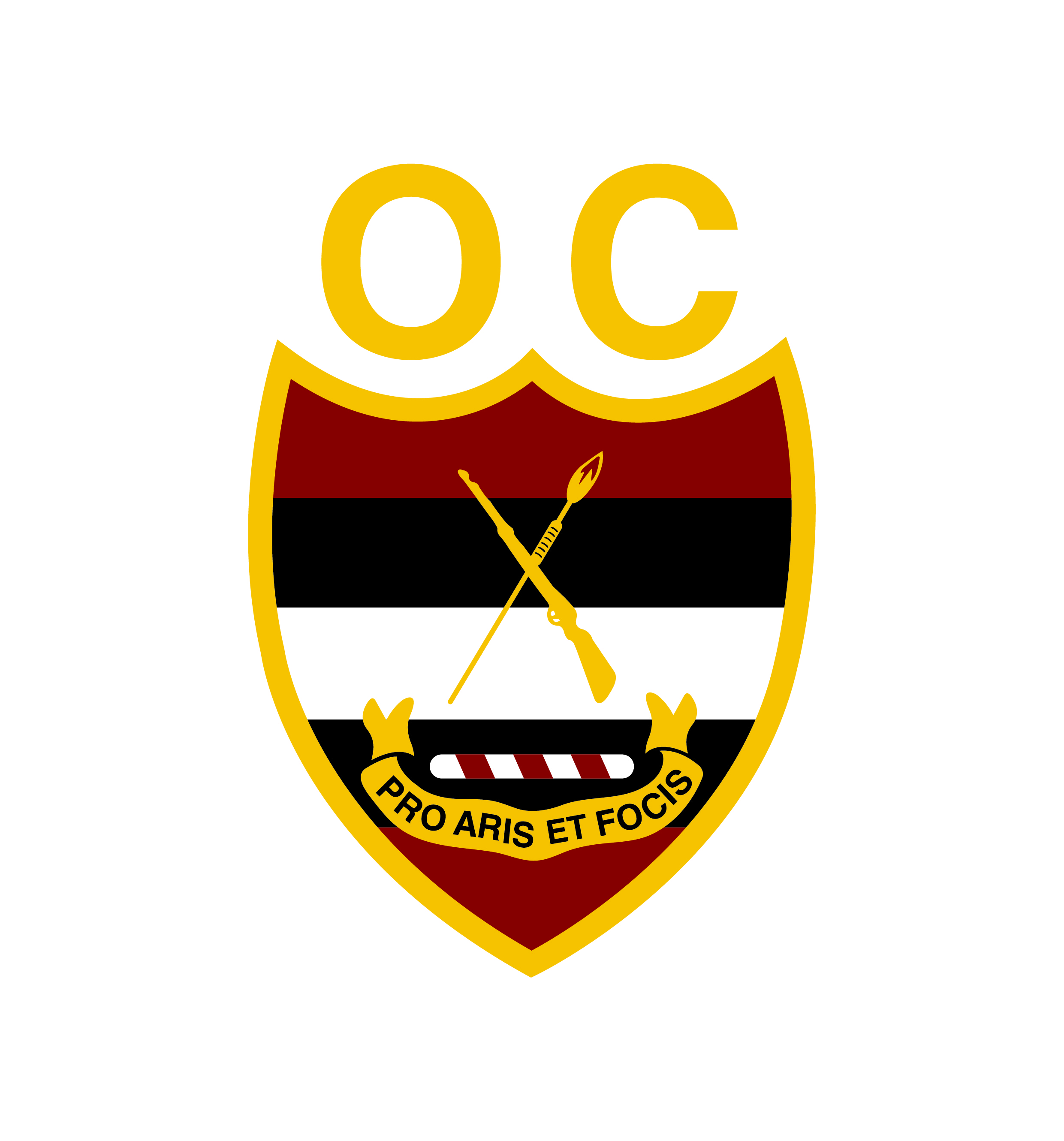 MCOBA logo 2020